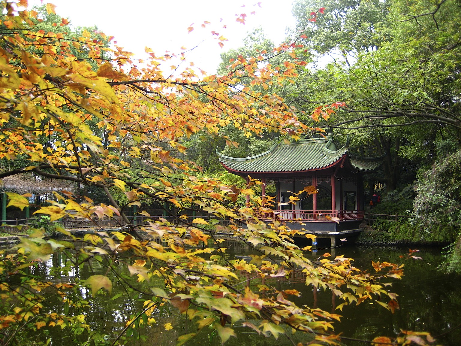 a corner of JinShan Park